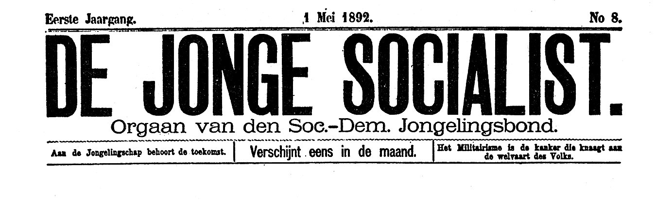 header of “De Jonge Socialist”, published by the Sociaal-Democratische Jongelieden Bond (social democratic youth organisation in the Netherlands), 1 May 1892